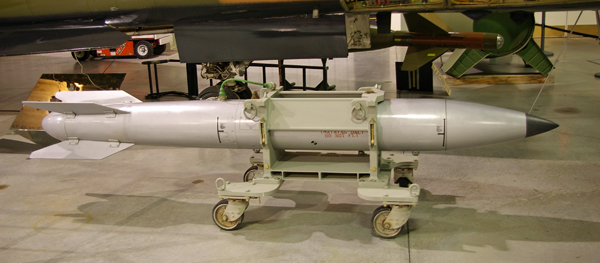 B61 Thermonuclear Bomb. The B61 nuclear bomb is designed for carriage by aircraft at supersonic flight speeds and is the primary thermonuclear weapon in the U.S. stockpile since the end of the Cold War. The weapon was designed and built by the Los Alamos National Laboratory in New Mexico beginning in 1961 and has been produced in several versions.